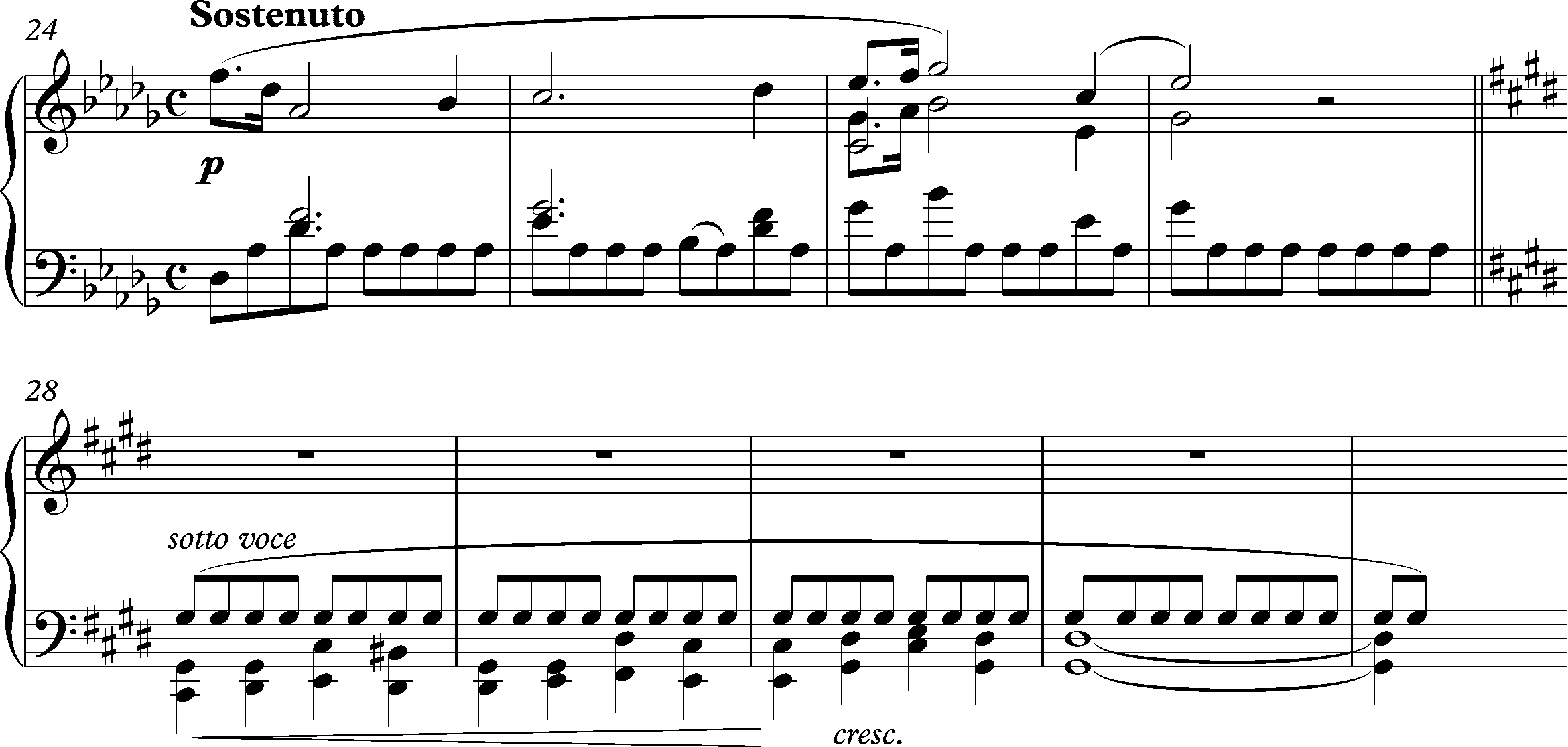 Chopin Prelude in D flat, last four bars of the opening section leading to the first four bars of the middle section.